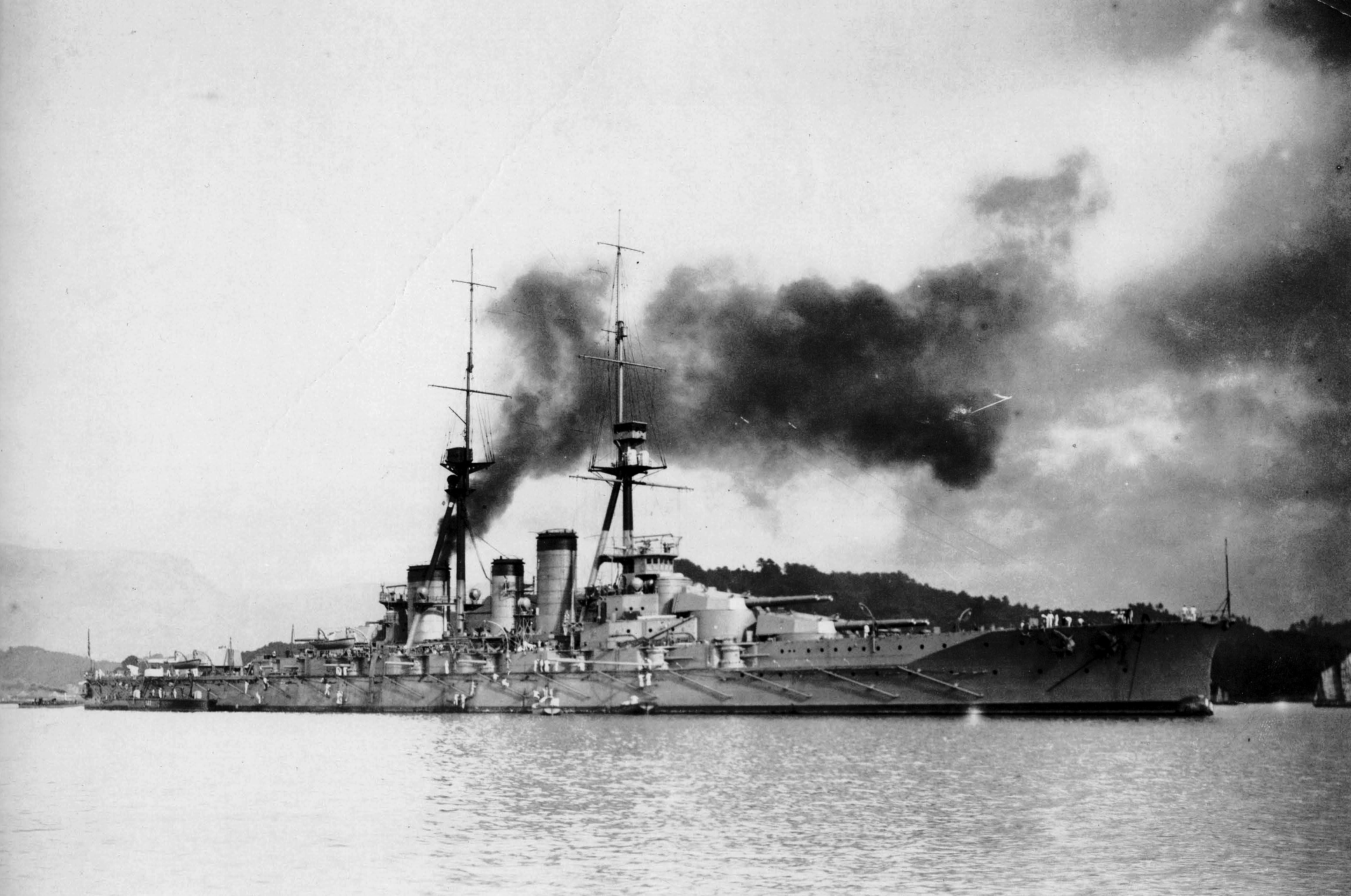 Imperial Japanese Navy battlecruiser Hiei at Sasebo, Japan.